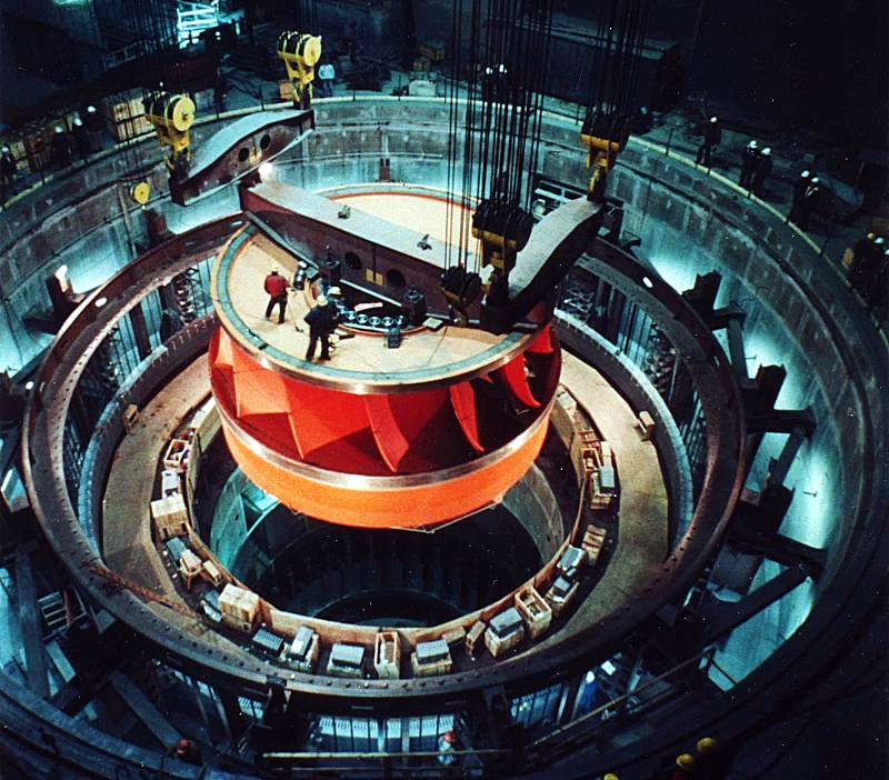 A water turbine being assembled at the Grand Coulee Dam